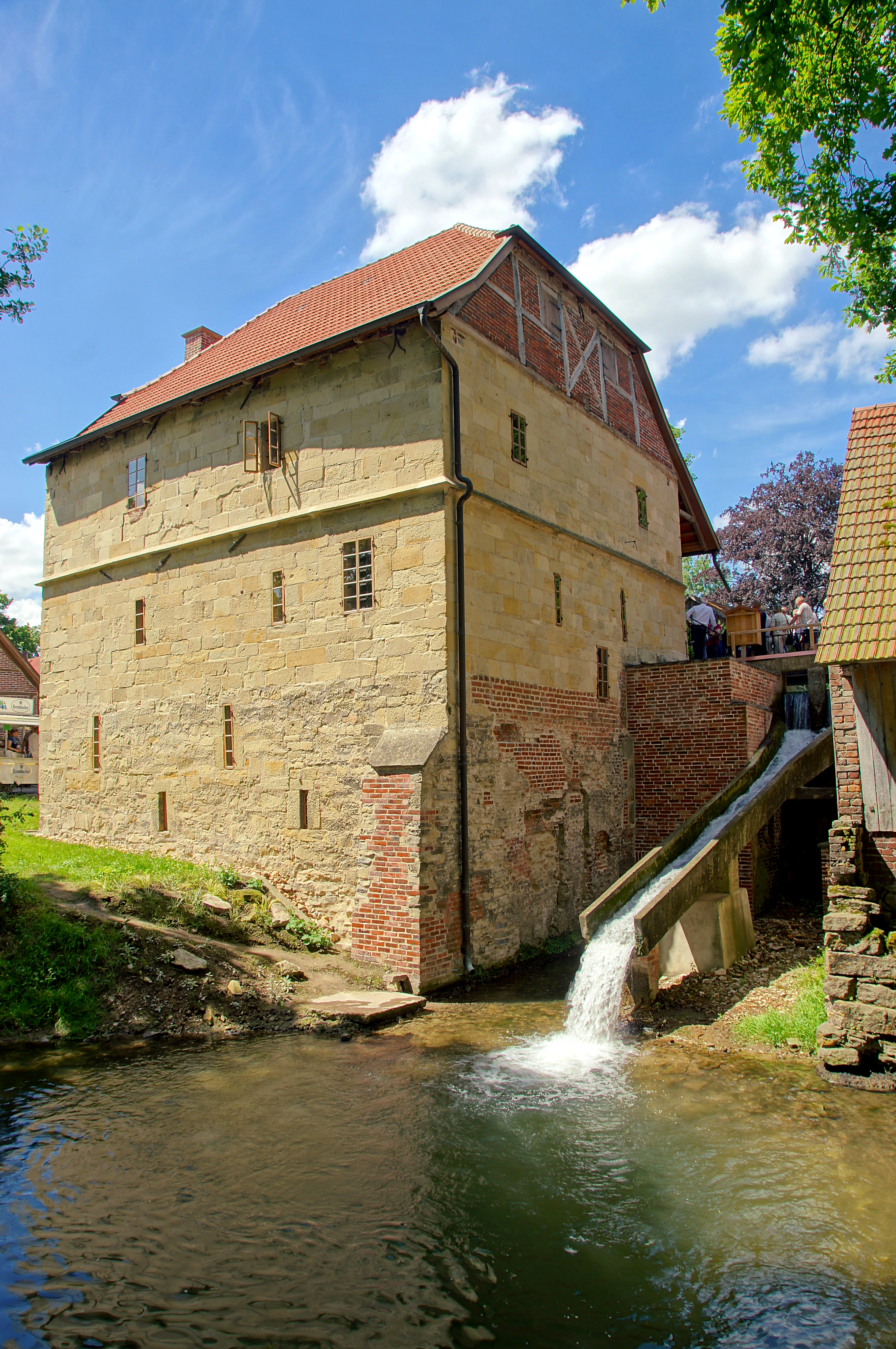 Historic watermill Schulze Westerath in Nottuln, district of Coesfeld, North Rhine-Westphalia, Germany. This is a photograph of an architectural monument.